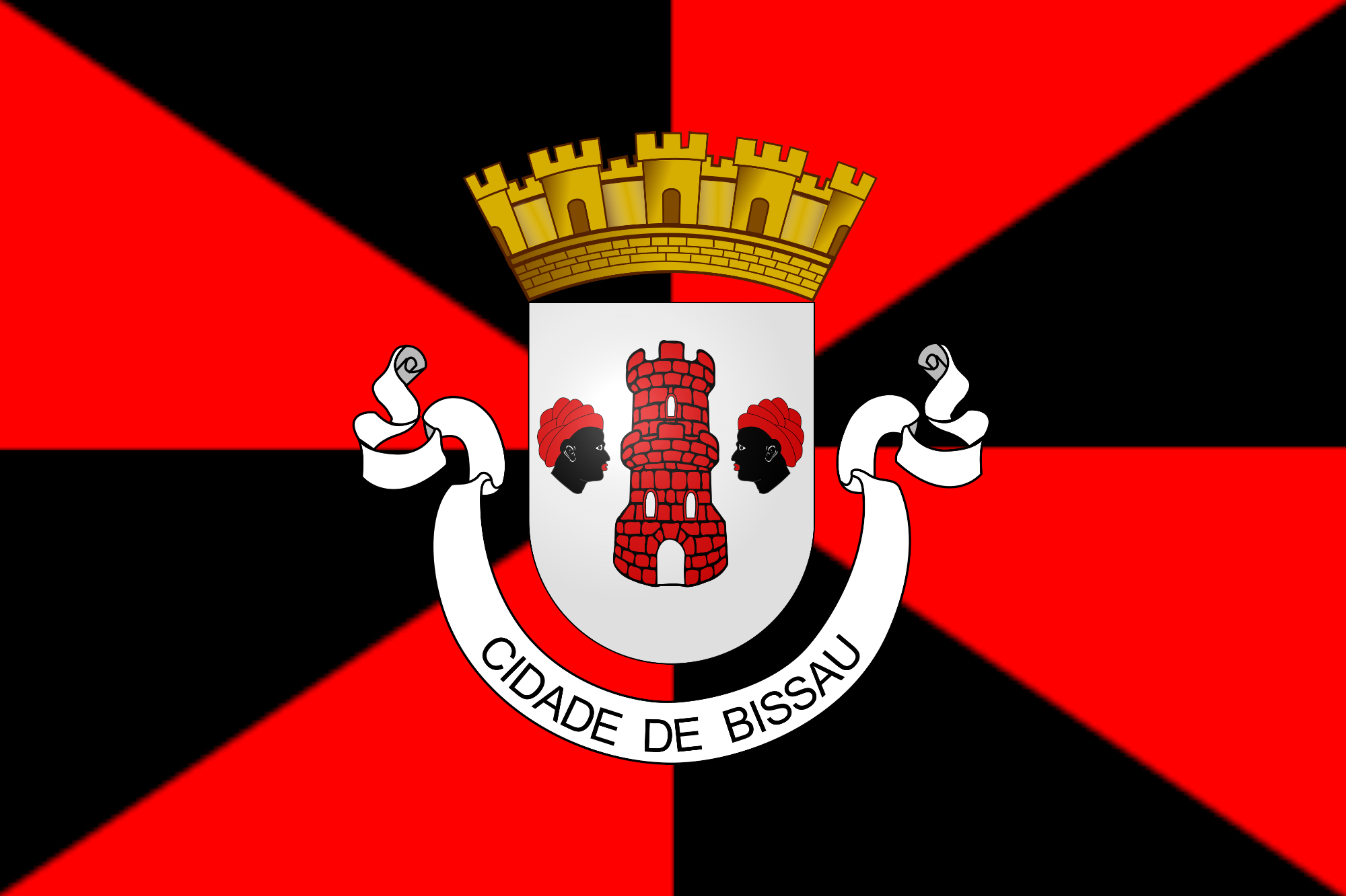 (Flag of the city of Bissau, Guinea-Bissau, during Portuguese rule (may be still in use). Emerson)